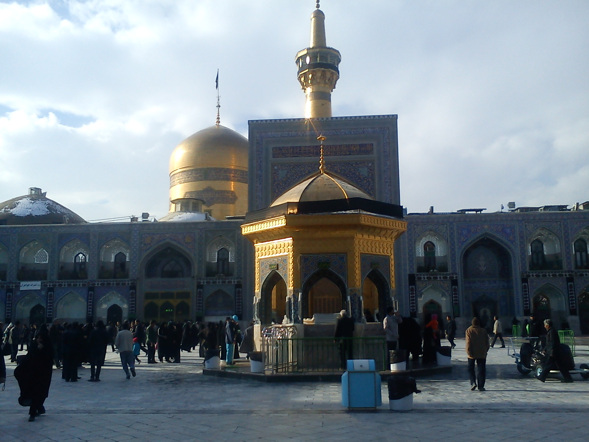 emam REZA